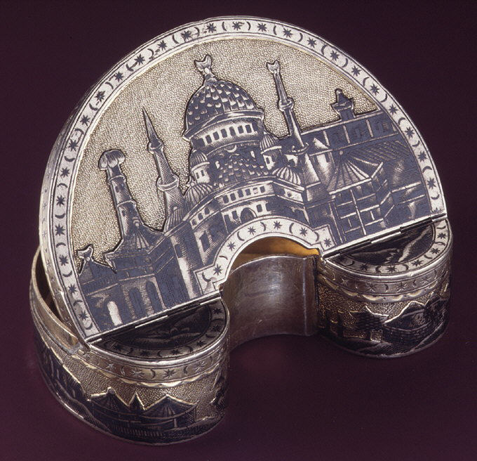 Russian (Moscow); Box; Metalwork-Silver